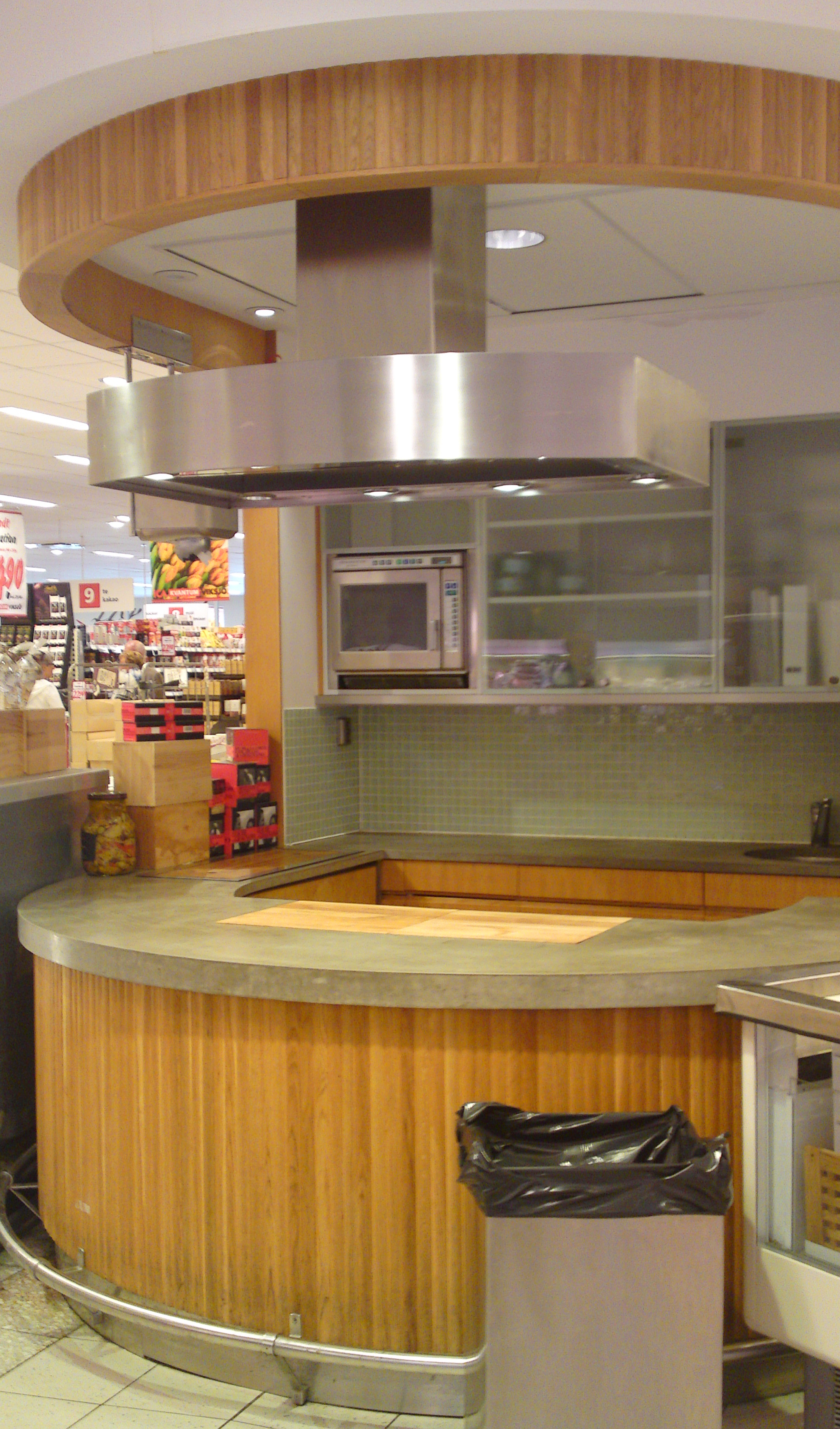 demo kitchen